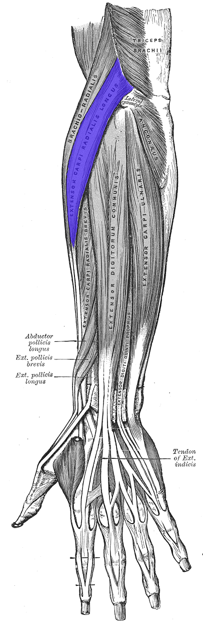 Image of the Extensor Carpi Radialis Longus muscle